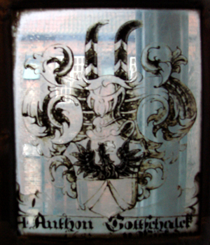 Stained glass window with Coat of amrs of Anthon Gottschalk von Wickede (*1657, † 1704), today in St.-Annen-Museum, Lübeck